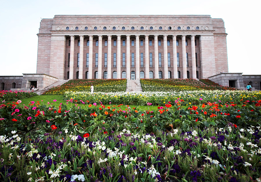 Parliament of Finland